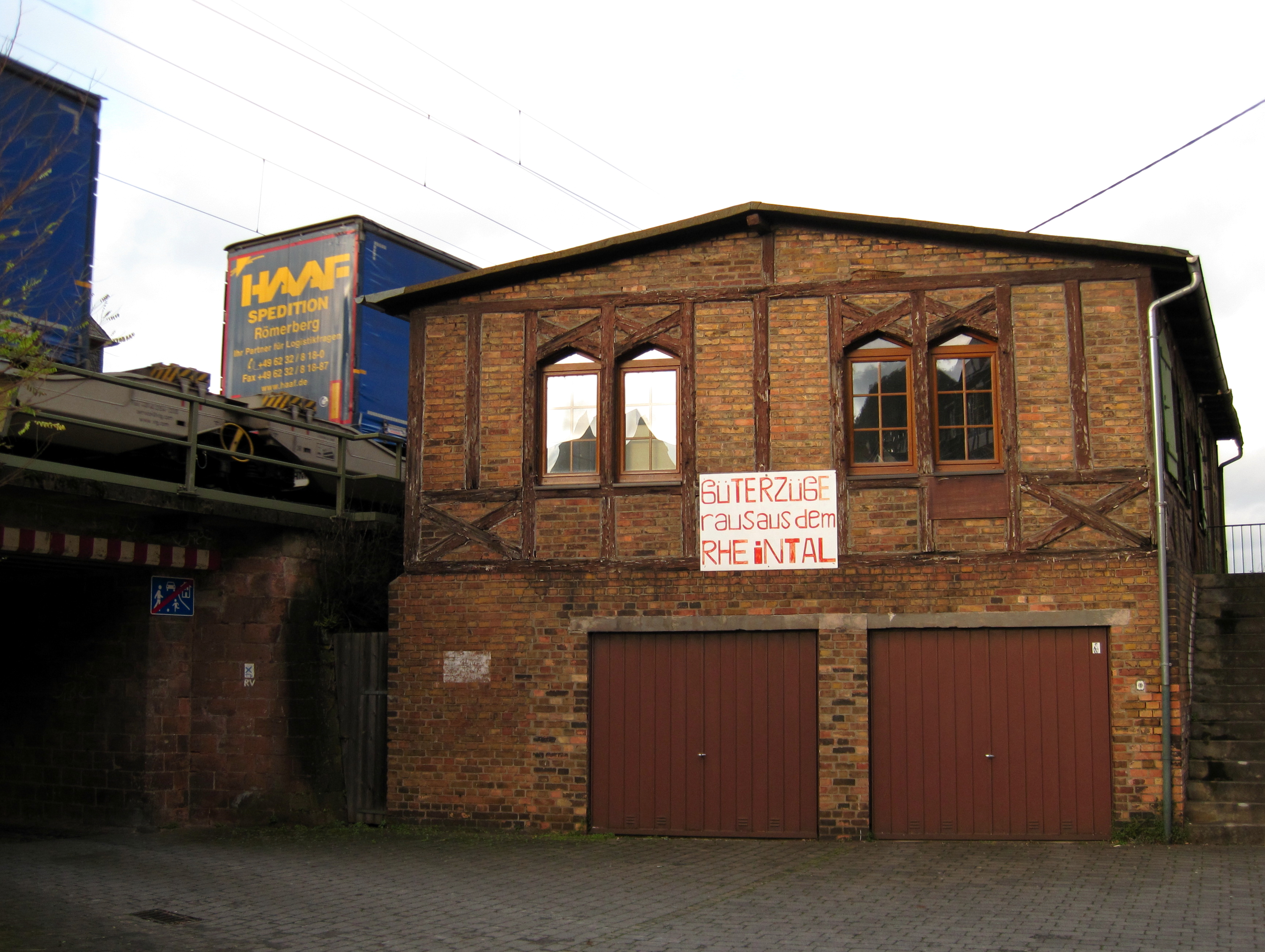 "Freight trains out of the Rhine Valley", protest against railway noise in the UNESCO World Heritage Site Upper Middle Rhine Valley. Kaub, Rhineland-Palatinate, Germany